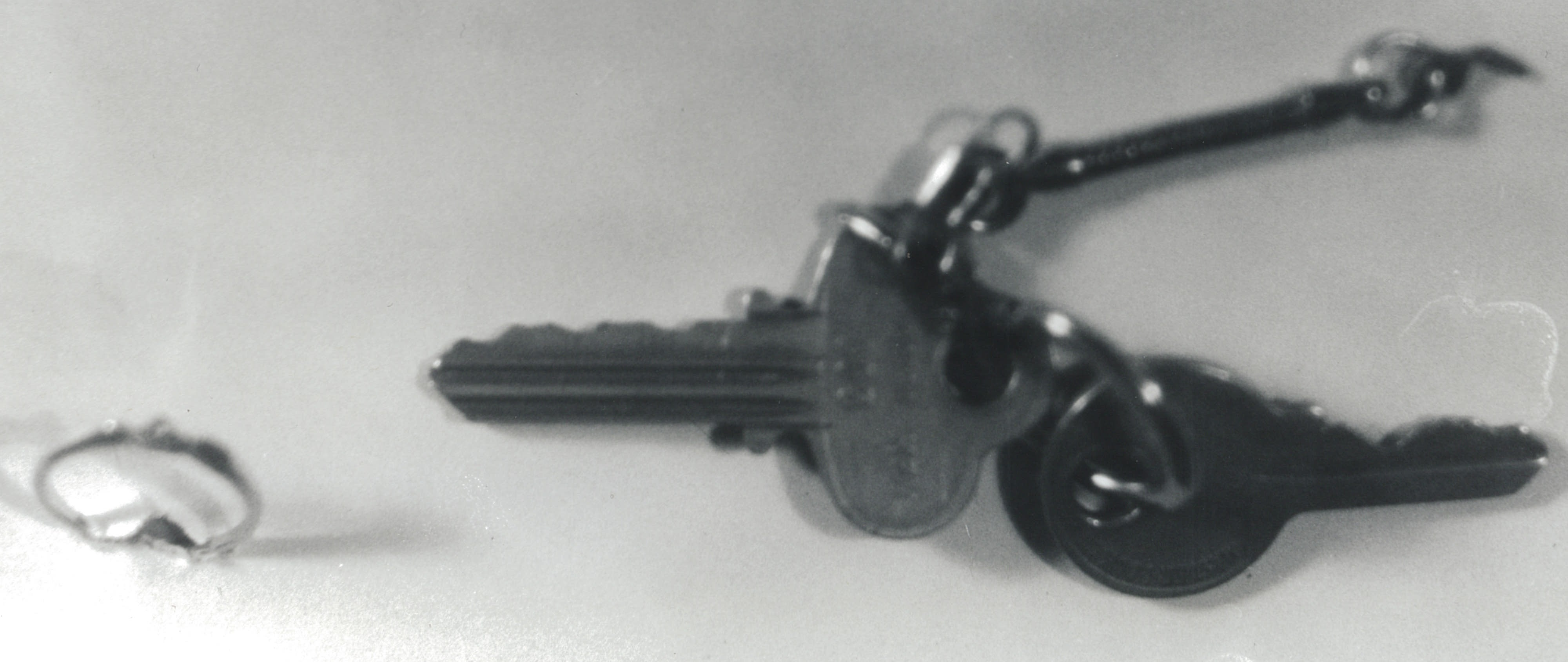 Items associated with an unidentified murder victim found in California in 1974